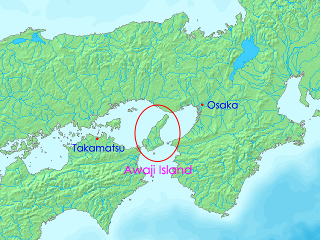 The location of Awaji Island